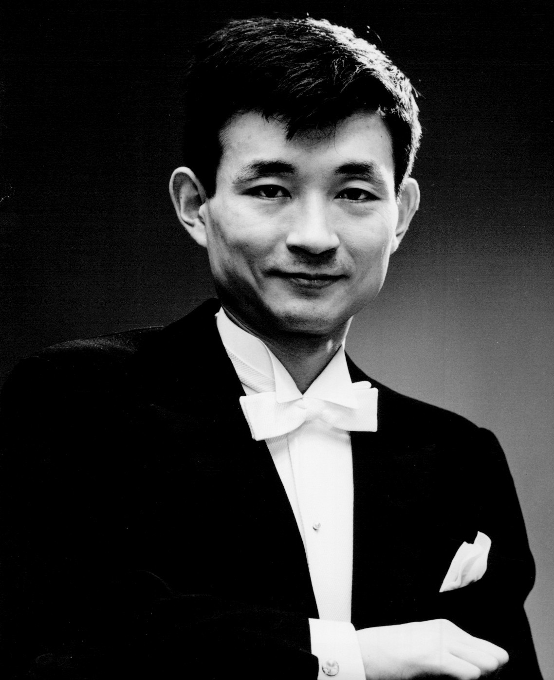 Photo of conductor Seiji Ozawa. The item has no copyright markings on it as can be seen in the links above.